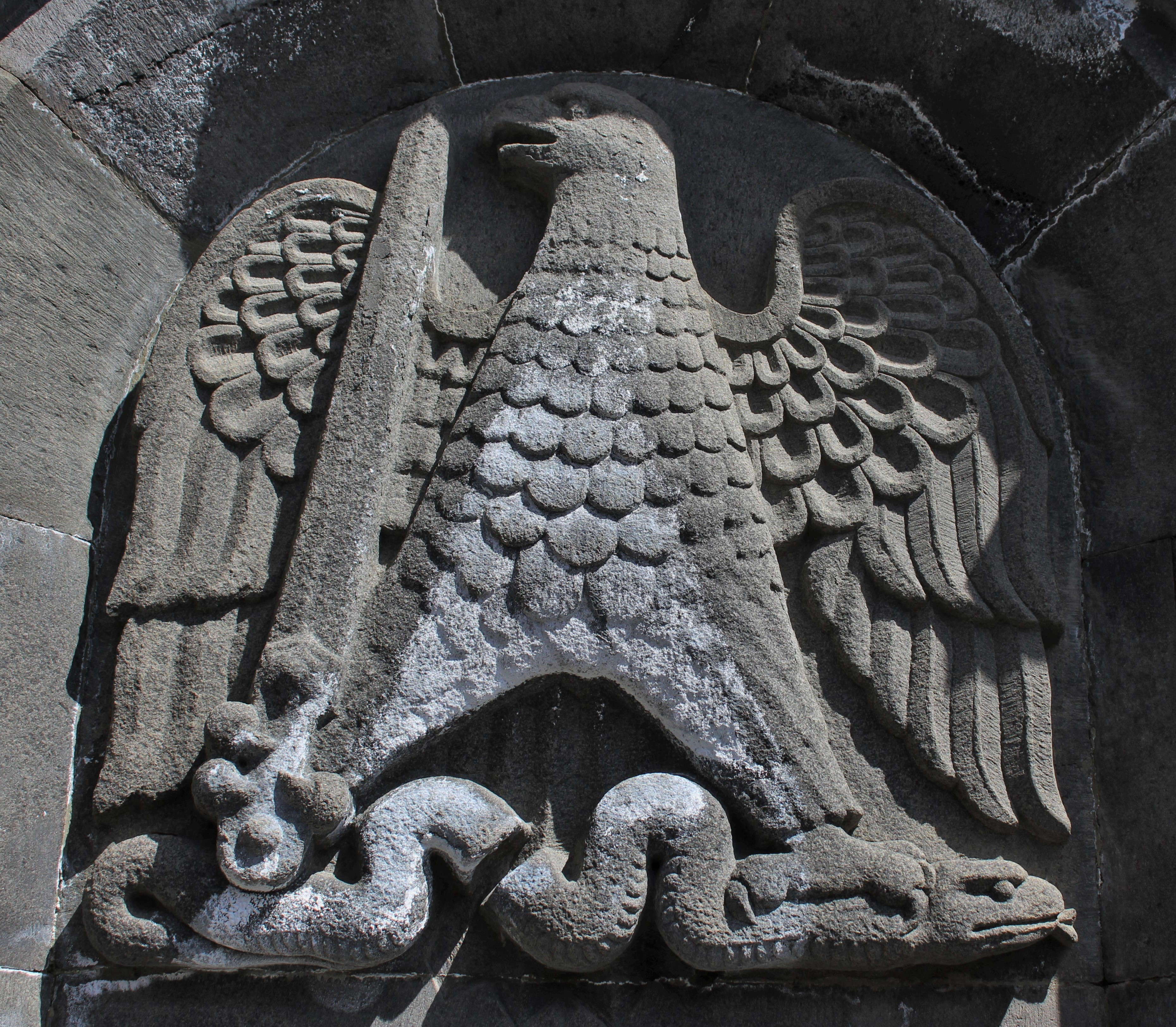 Engraved Tseghakron Coat Of Arms on the spring in the territory of Geghard Monastery. Kotayk Province of Armenia.